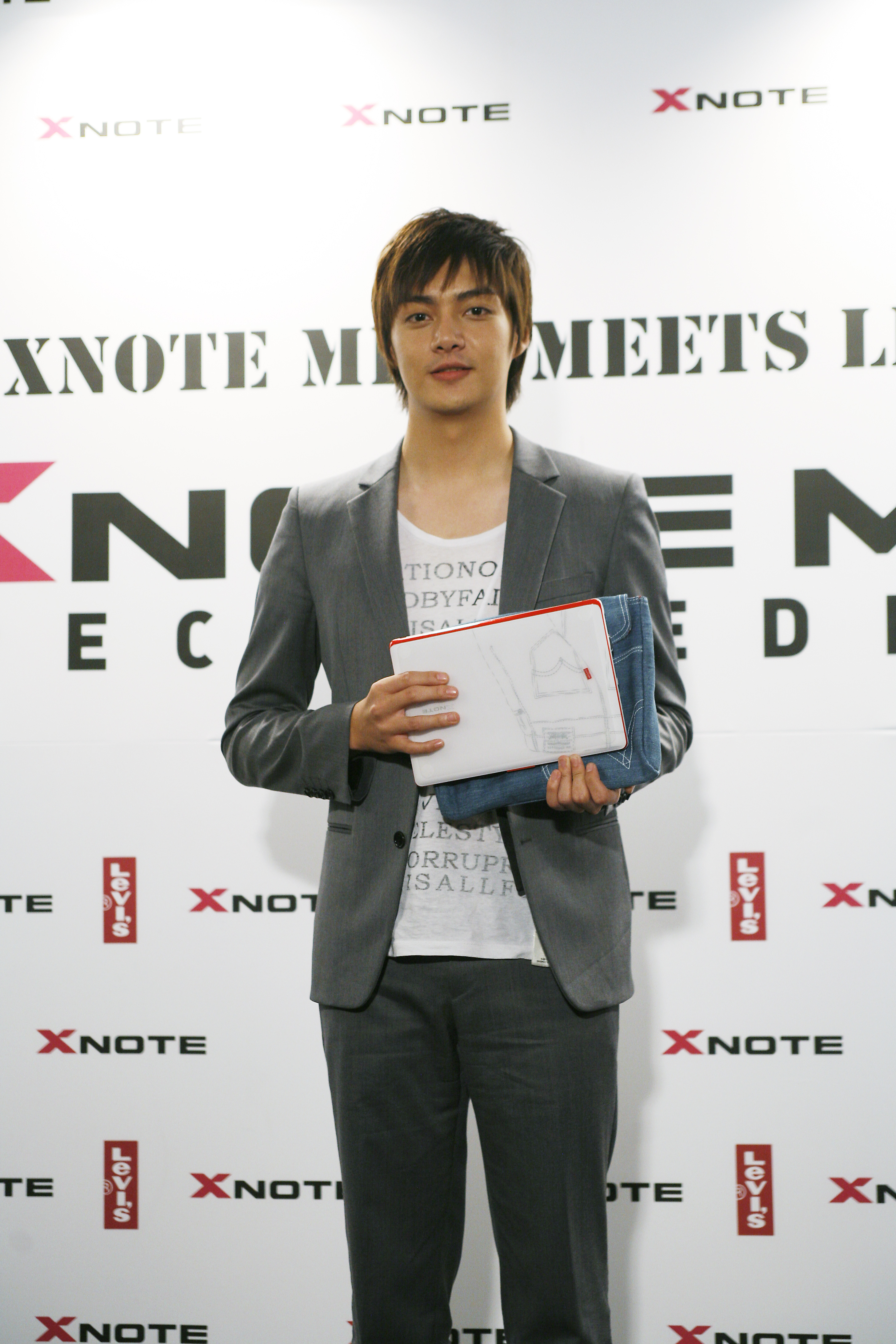 Kim Joon (born 1984), South Korean actor